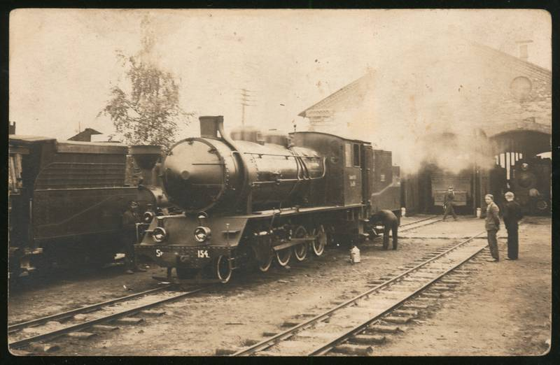 Steam locomotive Franz Krull Sk-154 by the Mõisaküla depot